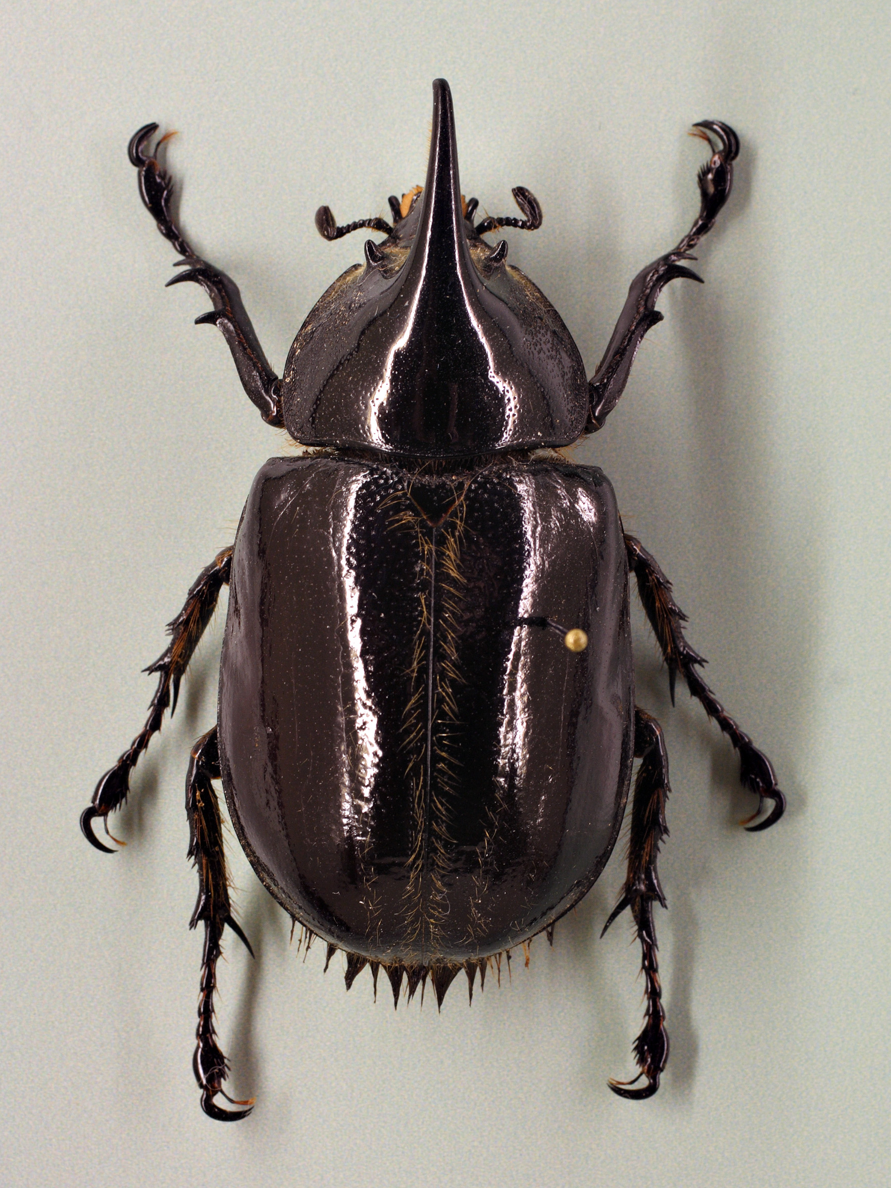 Dynastes neptunus (small male), mounted; Audubon Insectarium, New Orleans, US.